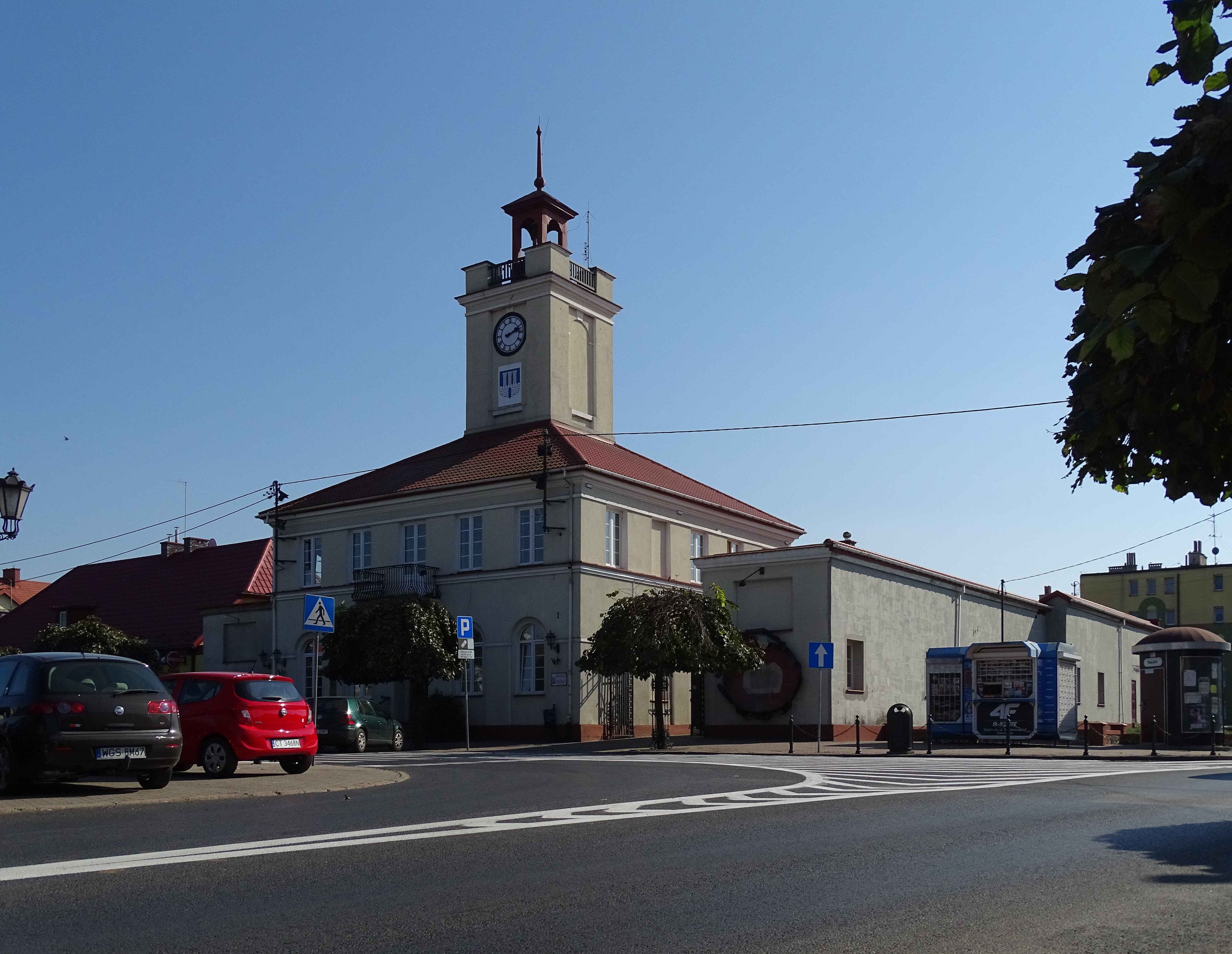 Gostynin, Masovia, Poland. The town hall, built in the years 1821-1824.